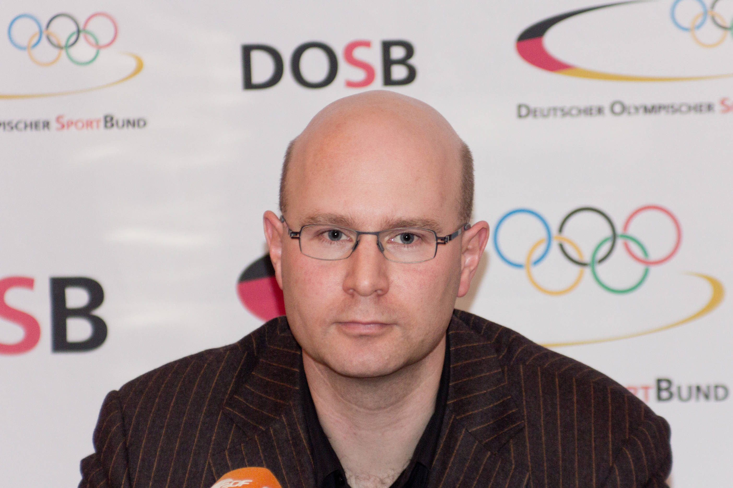 Mitgliederversammlung des DOSBam 7. Dezember 2012 in Stuttgart Olaf Kosinsky Madonius Steschke Dieses Foto entstand aufgrund einer Zusammenarbeit mit dem DOSB. Personality rights warningAlthough this work is freely licensed or in the public domain, the person(s) shown may have rights that legally restrict certain re-uses unless those depicted consent to such uses. In these cases, a model release or other evidence of consent could protect you from infringement claims.